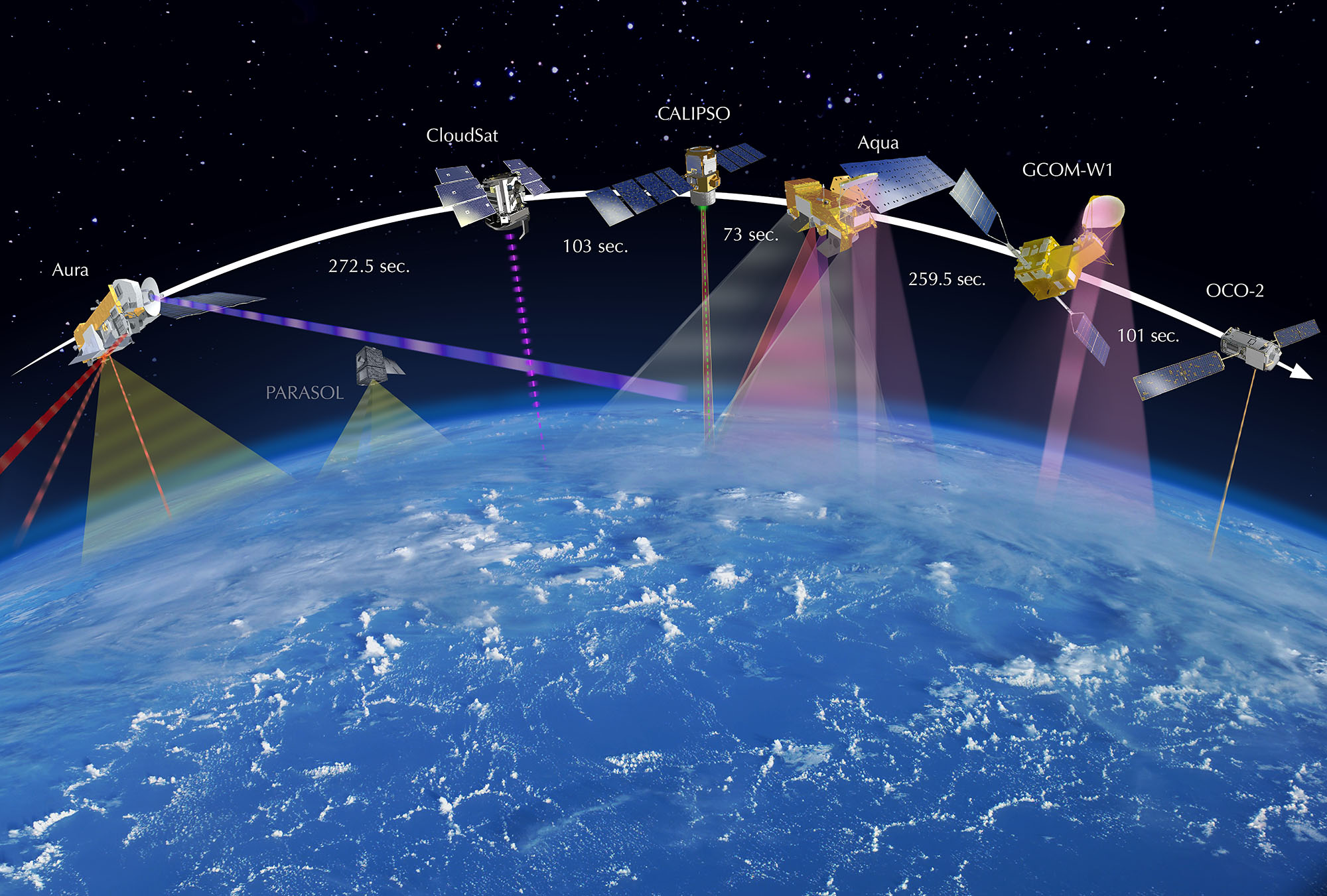 The A-Train with Time in 2013 (NASA)